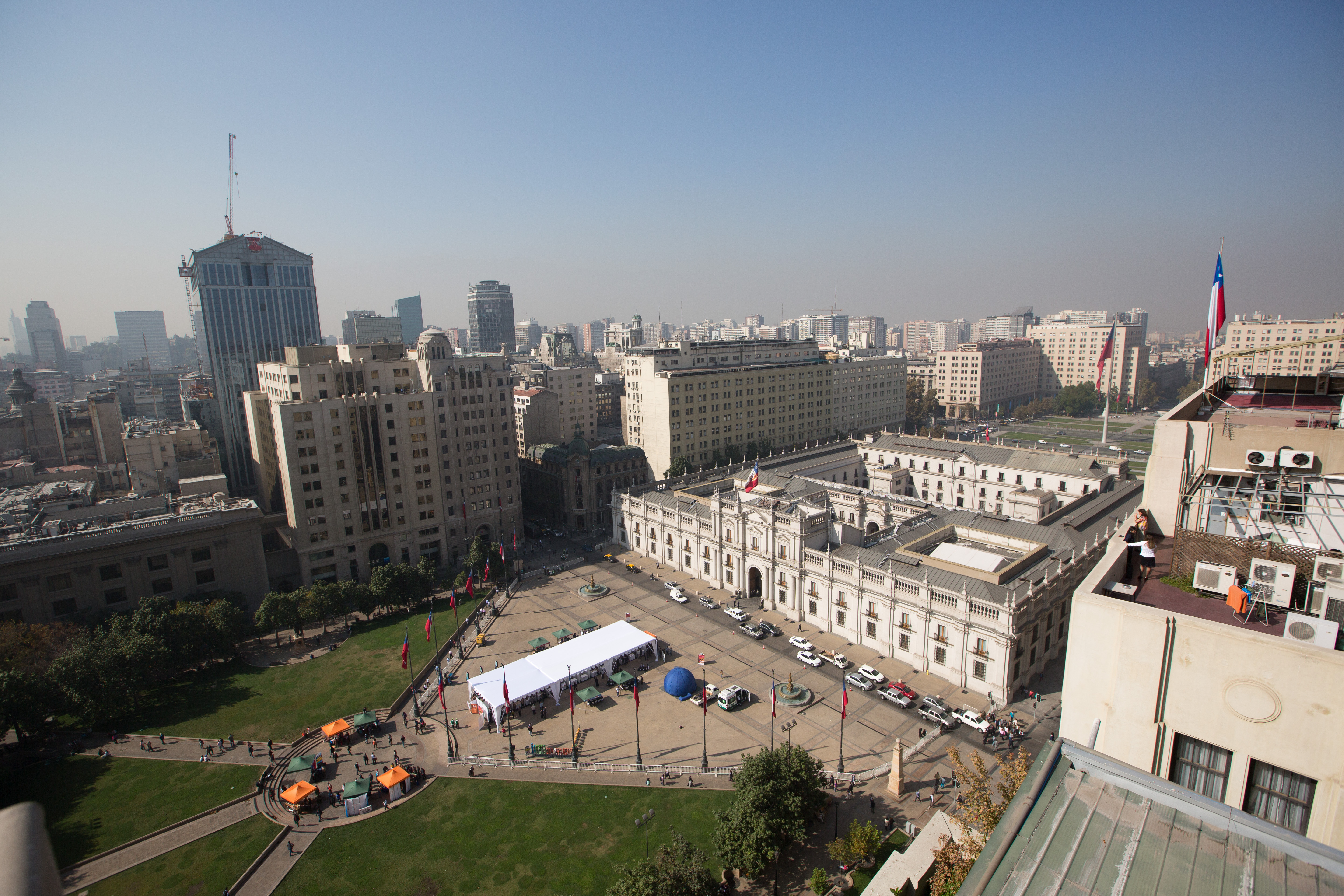 View of the Palacio de la Moneda in Santiago, Chile, from Edificio José Miguel Carrera.